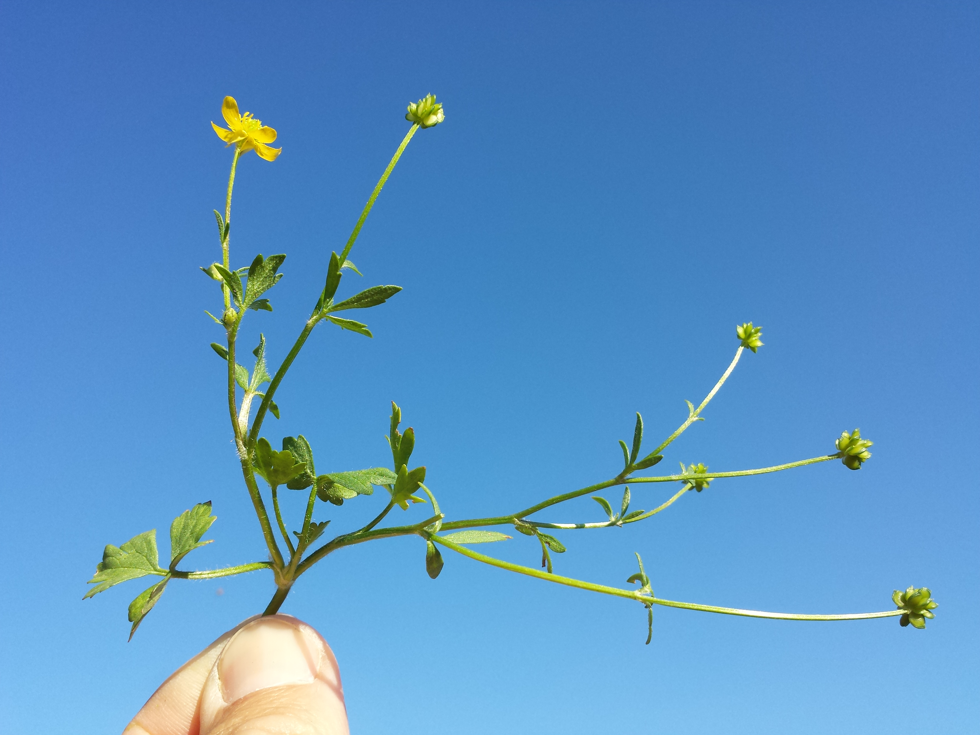 Habitus Taxonym: Ranunculus sardous subsp. sardous ss Fischer et al. EfÖLS 2008 ISBN 978-3-85474-187-9 Location: Jedleseer Friedhof, Vienna-Floridsdorf - ca. 160 m a.s.l. Habitat: grave